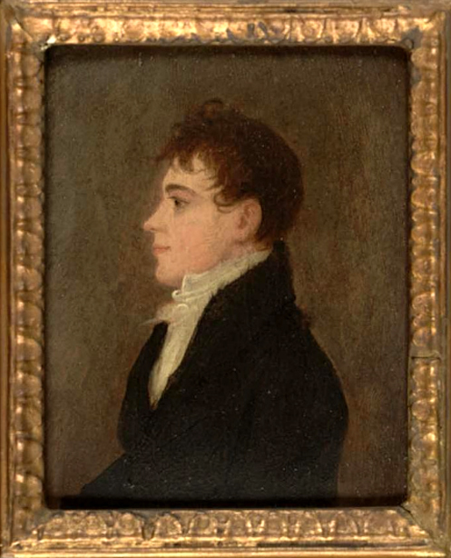 John Stone ca. 1811-1842